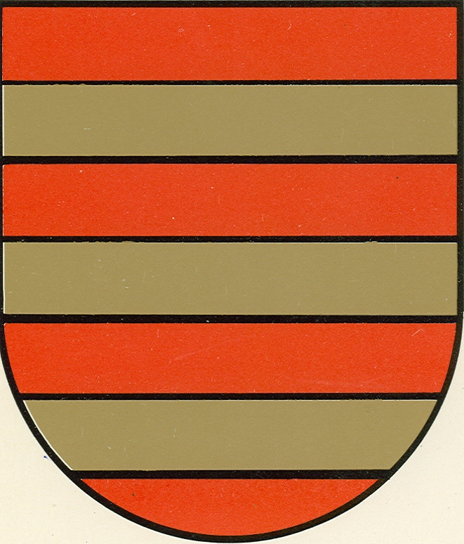 Coat of Arms of Mascarenhas family, Counts of Santa Cruz